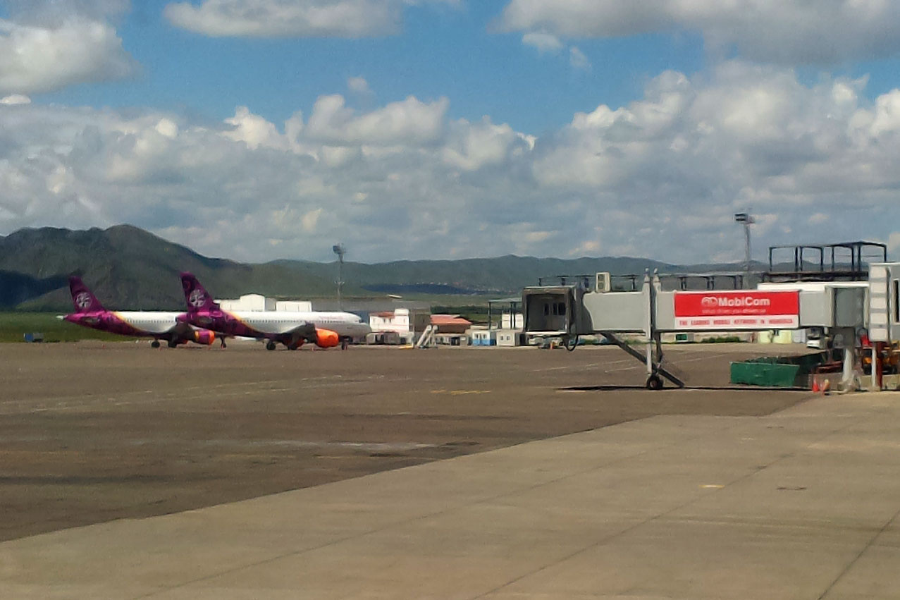 Mongolian Airlines Group Airbus A319-100 planes parked at Chinggis Khaan International Airport Монгол: Чингис хаан олон улсын нисэх онгоцны буудалд байрлуулна Монголиан Аэрлайнес Групп Airbus A319-100 онгоц